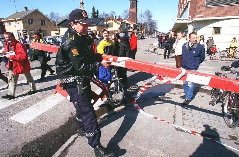 Police removing barrings around the accident area, allowing evacuated people to move back into their homes, and business to resume.